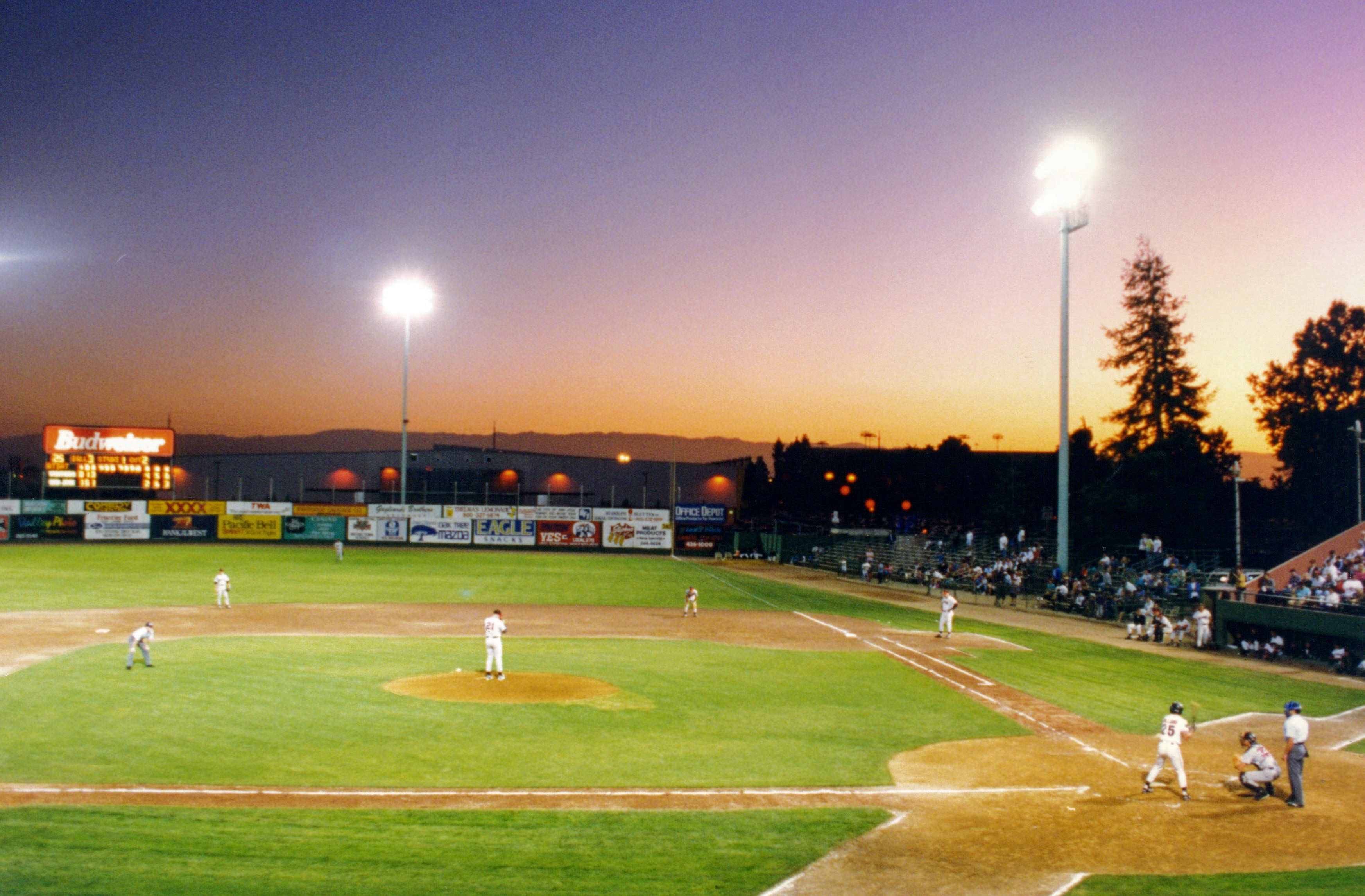 Class 'A' baseball, San Jose, CA, 1994, by Rick Dikeman Category:Baseball images